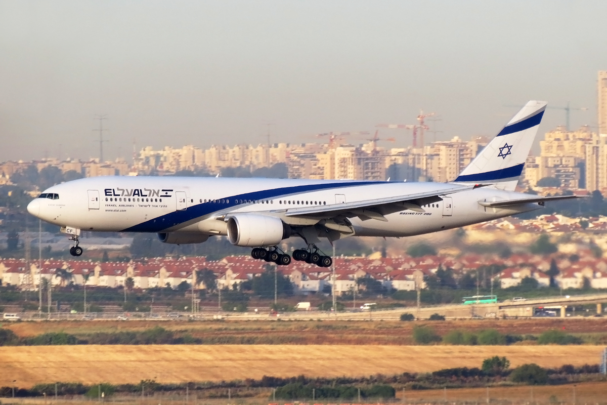 At Ben Gurion International airport.